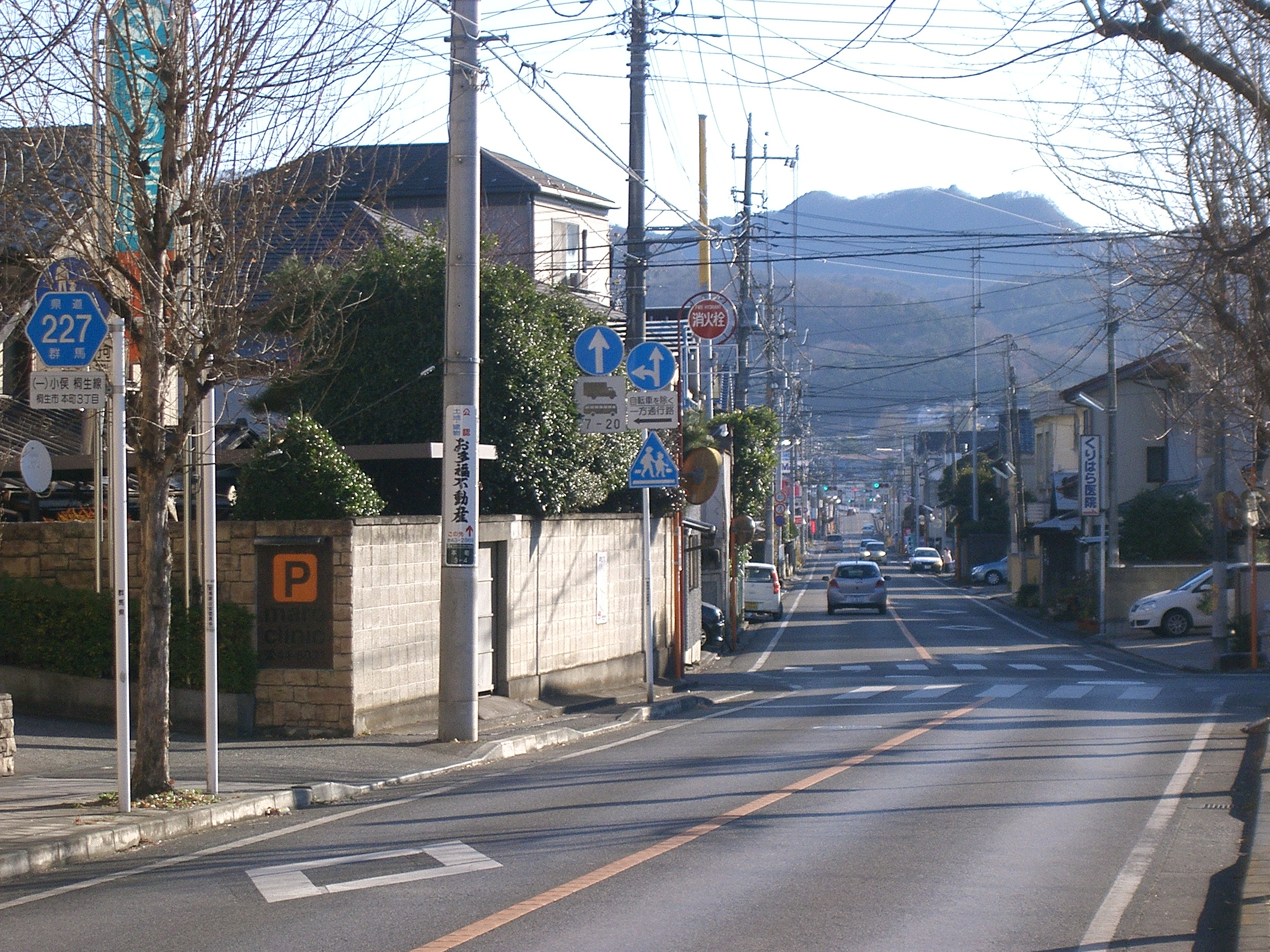 Gunma prefectural road 227 Komata-Kiryu line. Looking east from Honcho 3-chome intersection, Kiryu city.